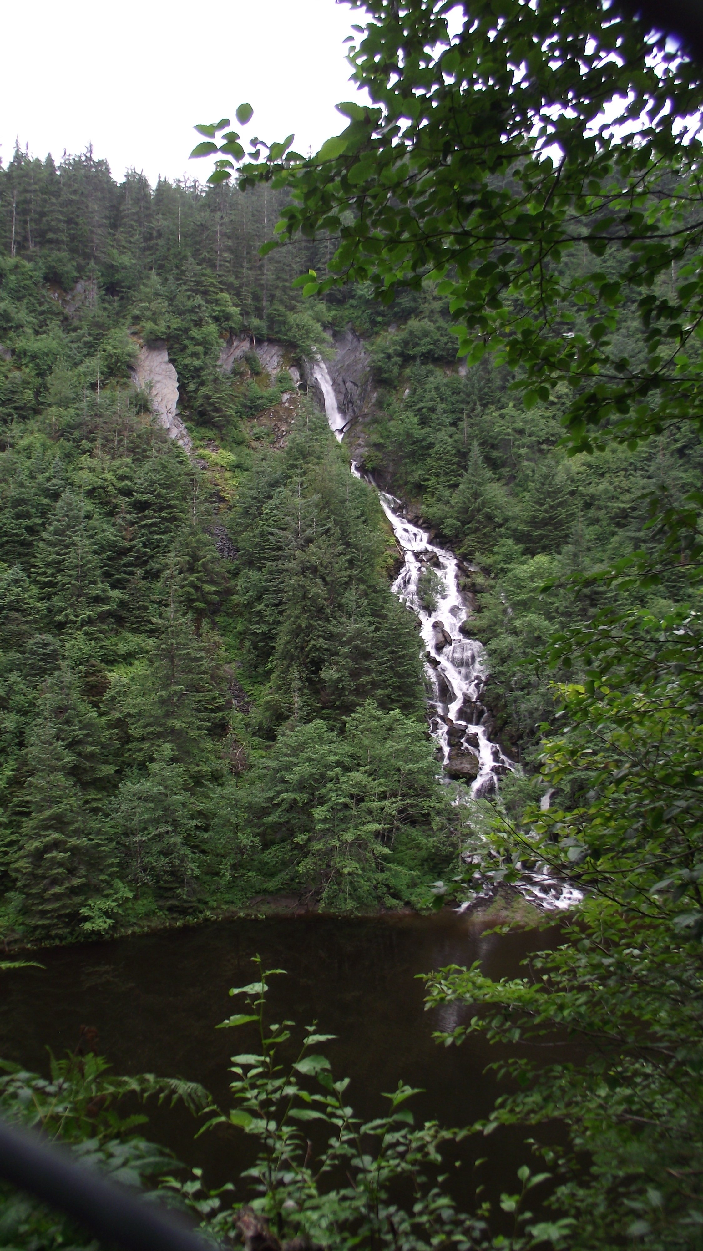 Hard rock mining created this pit after gold was discovered in 1881. The Glory Hole today is filled with water, supplied by Paris Creek